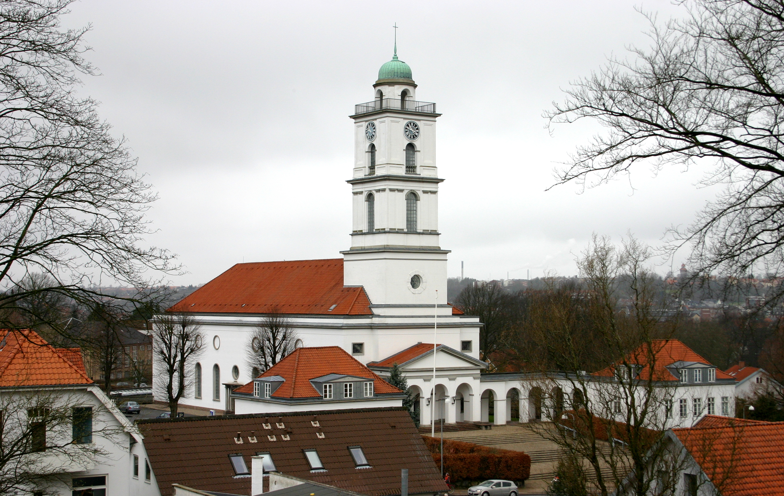 Kristkirken is the biggest church in Kolding.700 people can sit down.Made in 1925.